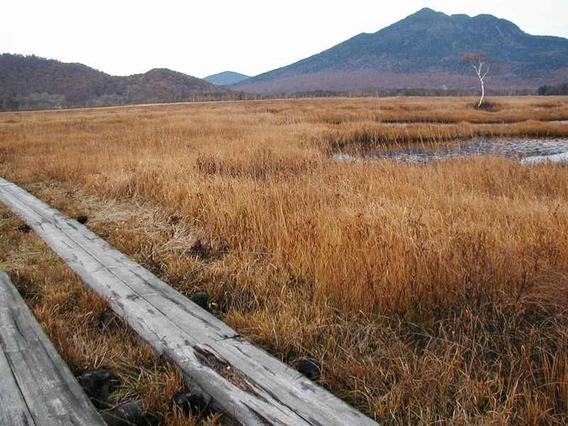 Ozegahara wetland, and Mount Hiuchi seen from Katashina, Gunma